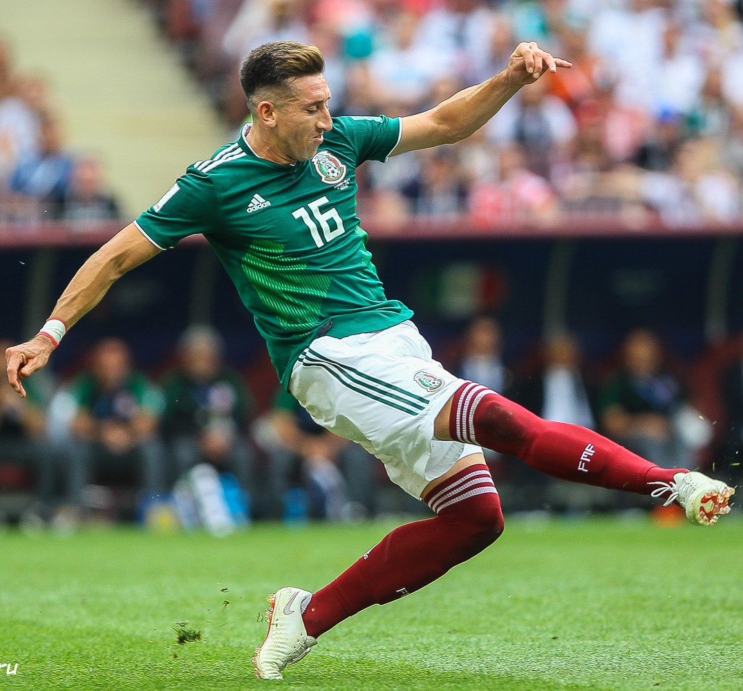 Héctor Herrera